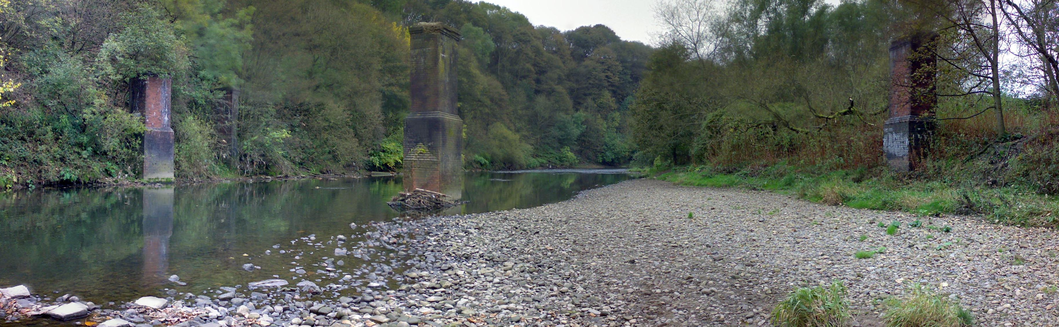 Some old supports at Ladyshore on the Irwell, near Farnworth. They carried a footpath over the river and onto the opposite bank.